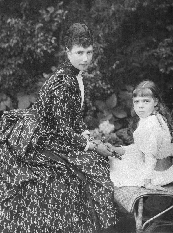 Empress Maria Feodorovna and her daughter Grand Duchess Olga Alexandrovna 1889